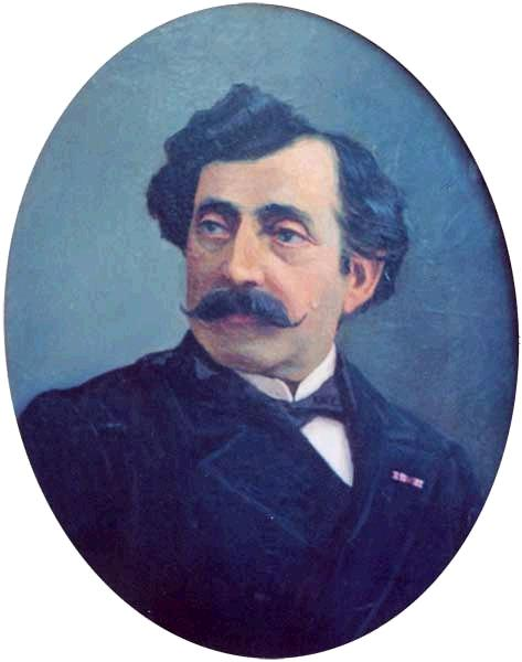 Portret of Zubalashvili (Iakob Zubalashvili, 1792-1864), painter Nikolay Sklipasovs